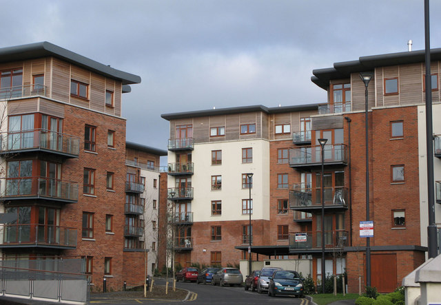 Apartments, Santry Desmesne, Santry, Dublin, Ireland These apartments were built as part of the restoration of Santry Desmesne. About two thirds of the original estate has been developed in this way, the rest a public park.